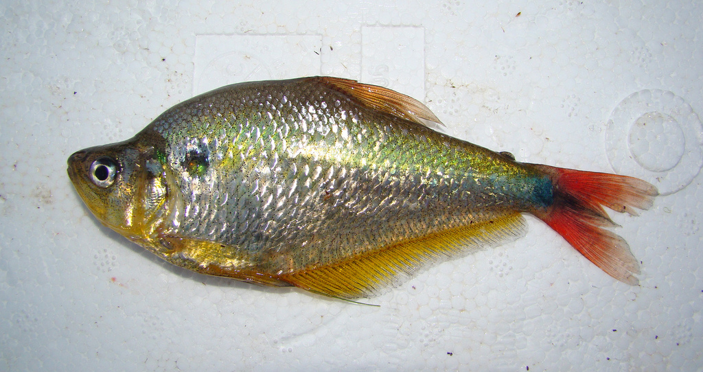 Charax stenopterus from a dam in Rio Grande do Sul, Brazil, photographed on February 2009. FishBase